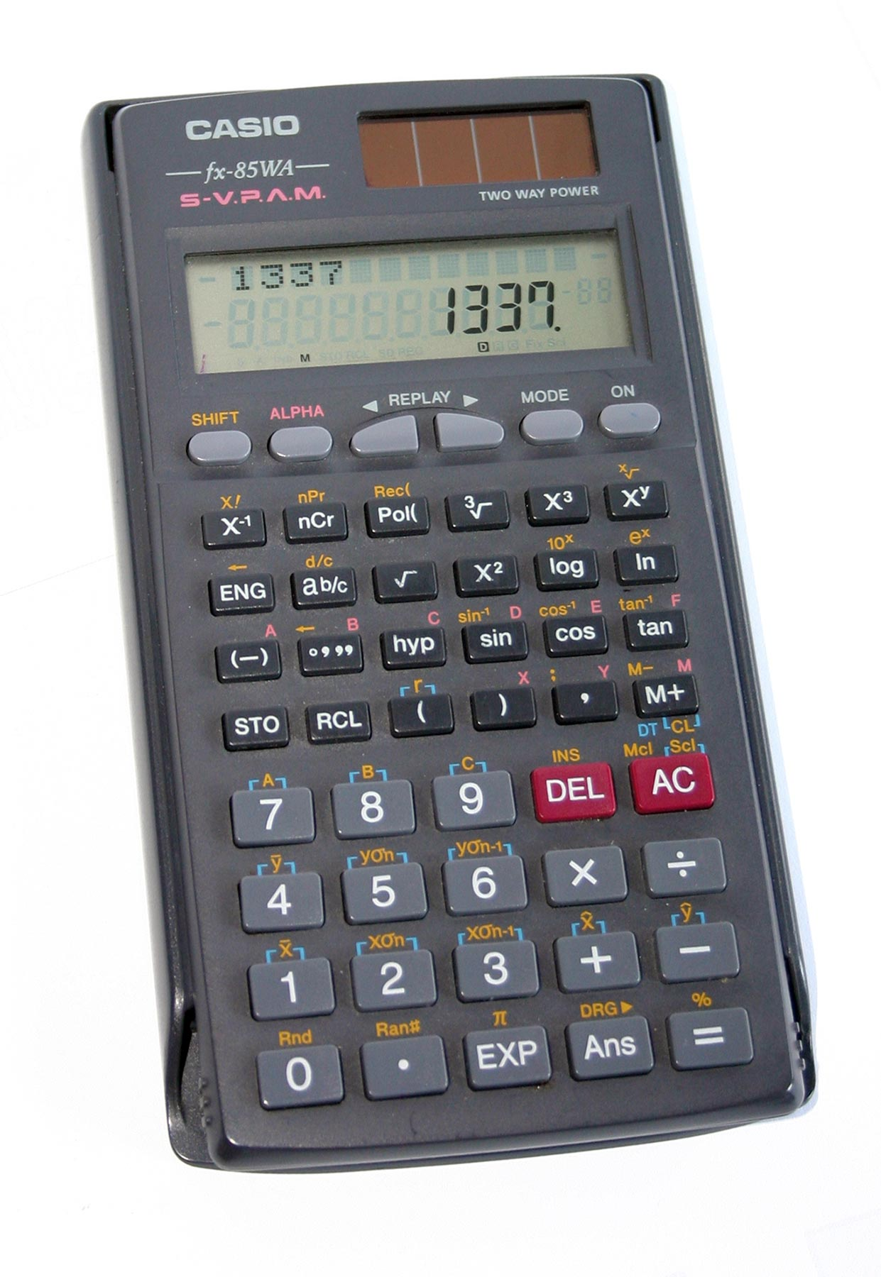 Casio fx-85WA Calculator